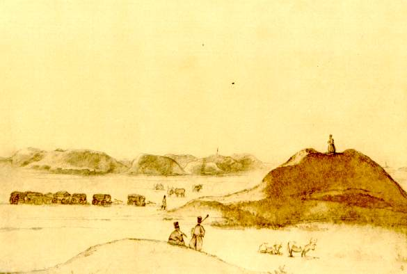 Chumaks between burial mounds, 1846.